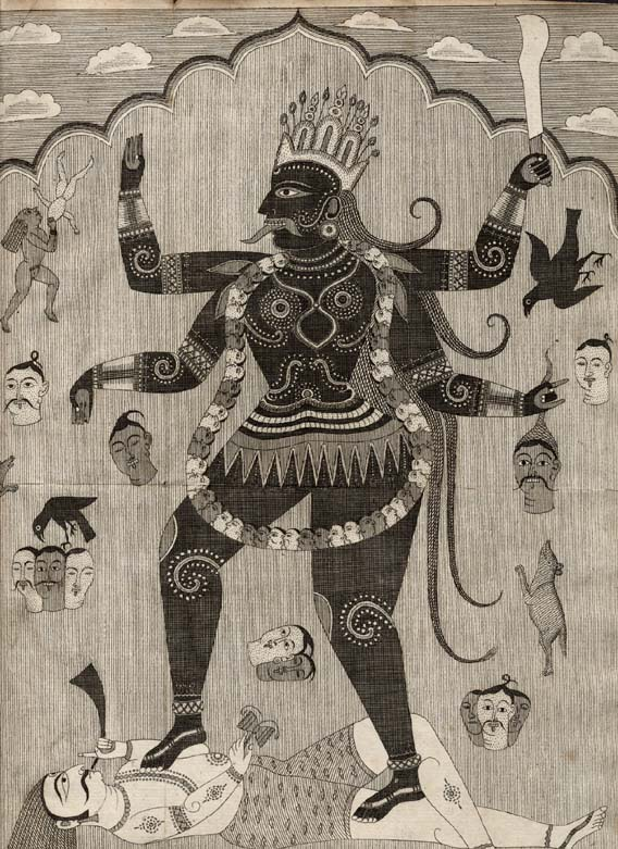 An attempt at cosmology, from John Zephaniah Holwell (1711-98), 'Interesting Historical Events, Relative to the Provinces of Bengal, and the Empire of Hindostan, etc.', probably from the second edition of 1766-71: *upper half*; *lower half*; also *Kali* (*detail 1*; *detail 2*); also *Rama and Ravana in combat* (a *detail*); also *Durga killing the buffalo demon* ( *detail 1*; *detail 2*); also *the Ras Lila* (a *detail*). Holwell commissioned Calcutta artists to do these drawings.